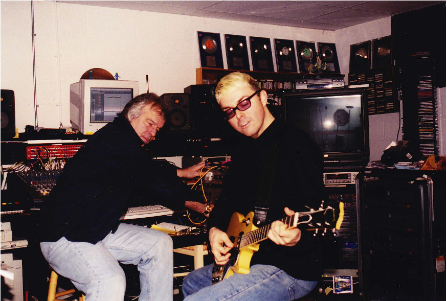 Producer Tony Visconti manipulates artist Richard Barone's guitar sound using an EMS Synthi AKS synthesizer in the studio.